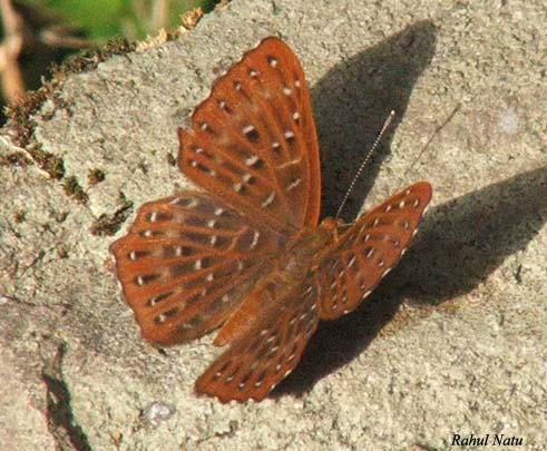 Punchinello, Zemeros flegyas basking on a rock. Sucking minerals? Photographed in Namdapha Wildlife Sanctuary, Arunachal Pradesh on 15 Nov 2005 by Rahul Natu who has donated it on Wikimedia Commons for use by the Indian butterflies project on Wikipedia. This image has been uploaded with permission of Rahul Natu by Nature Loader.